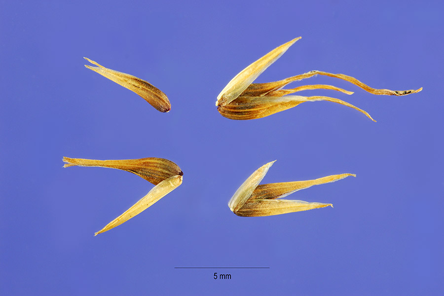 Seeds of Poa bulbosa